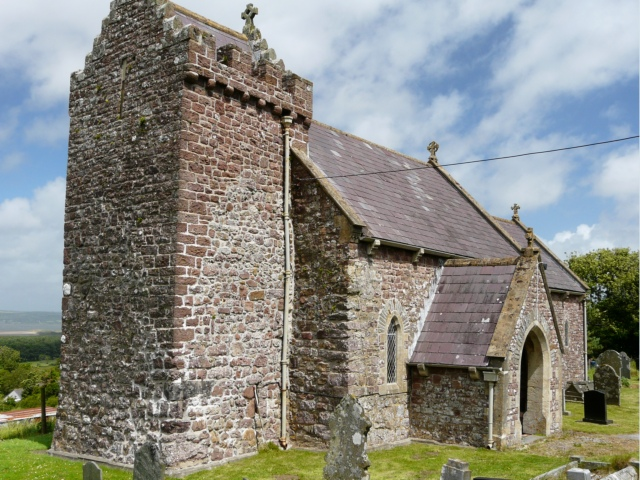 Llanmadoc Church